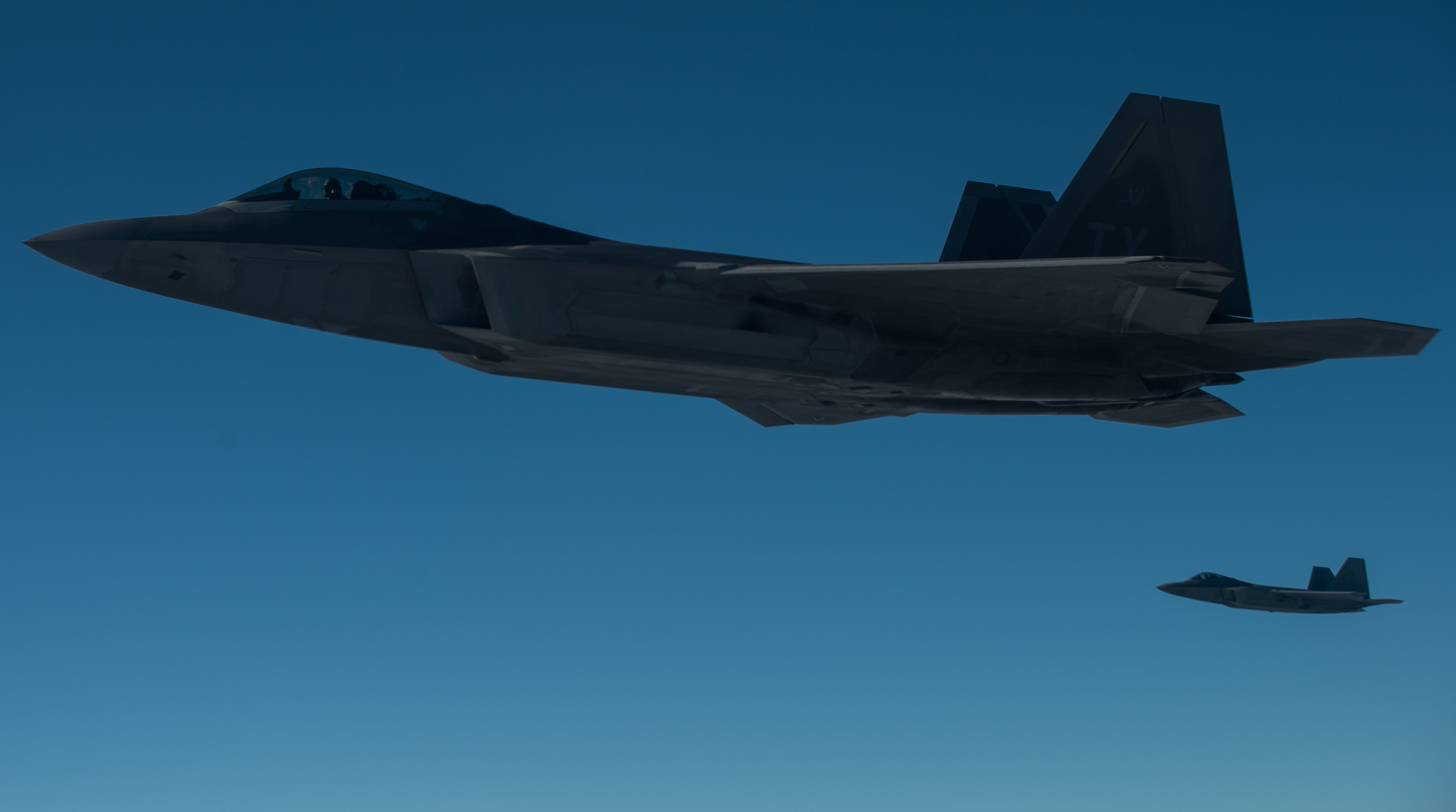 A F-22 Raptors from Tyndall Air Force Base, Fla., fly off the wing of a KC-135 Stratotanker on their way to Iraq, Jan. 30, 2015. The F-22s are supporting the U.S. lead coalition against Da'esh. (U.S. Air Force Photo by Staff Sgt. Perry Aston/Released)